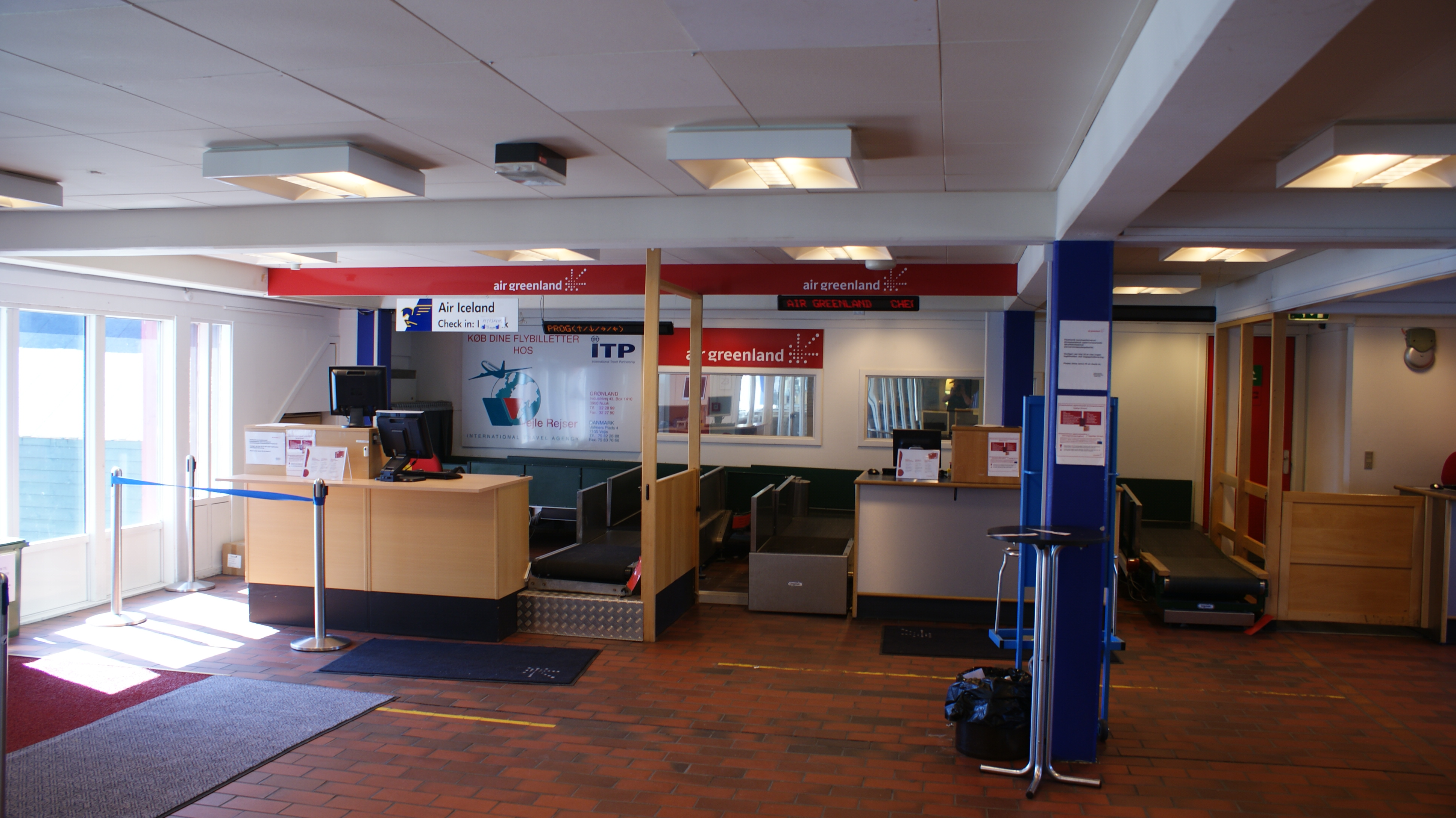 Air Greenland check-in desk at Nuuk Airport (GOH), Greenland.